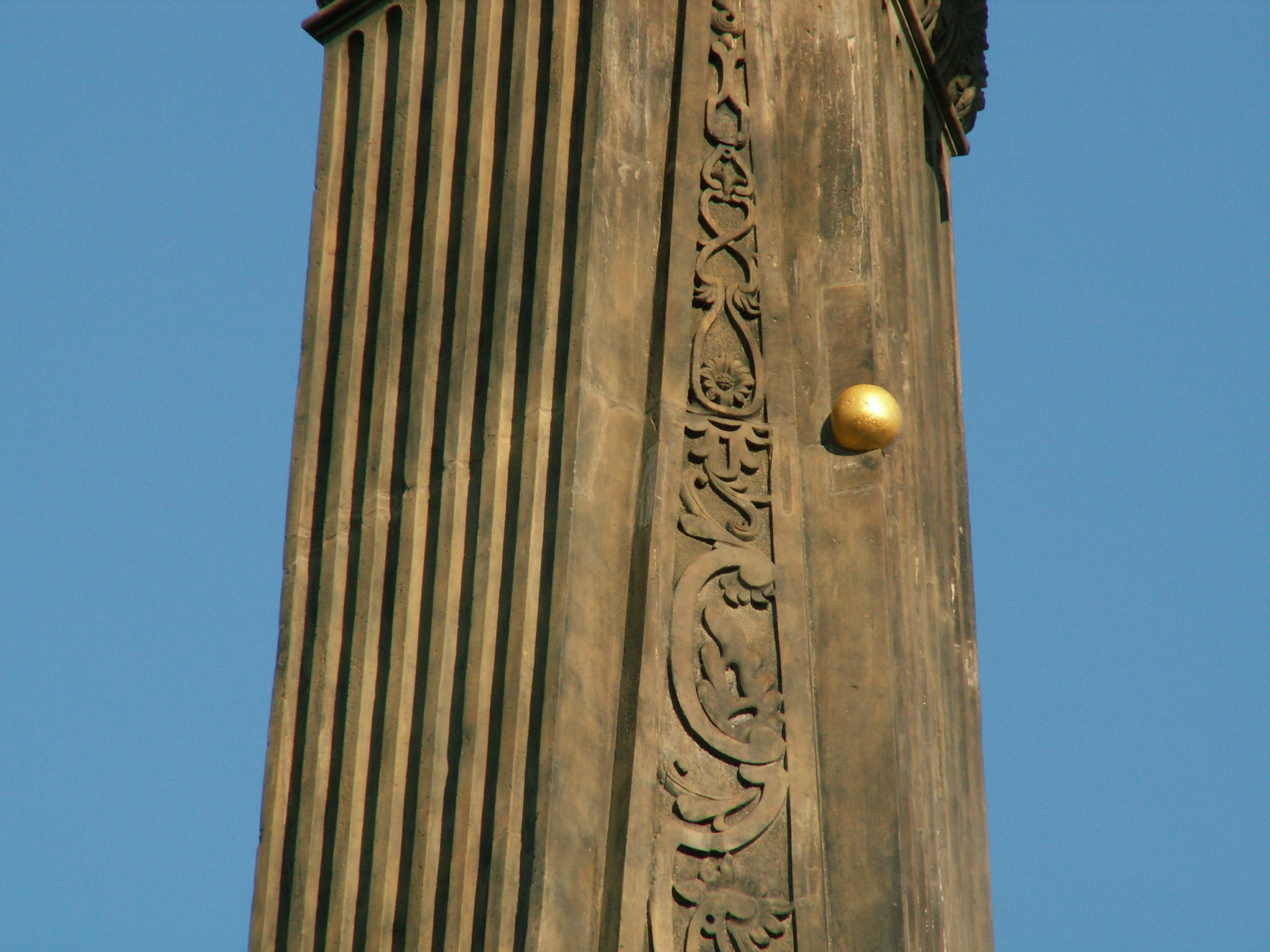 a gilded replica of a stone shot that hit the Holy Trinity Column in Olomouc when the city was besieged by Prussians